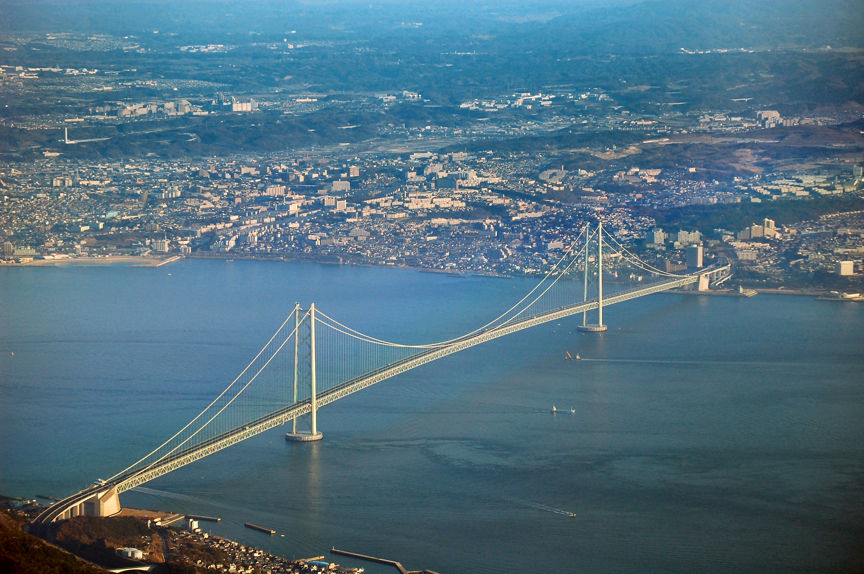 Picture of the Akashi Bridge in Kobe on December 2005 Picture taken by Kim Rötzel from an aircraft